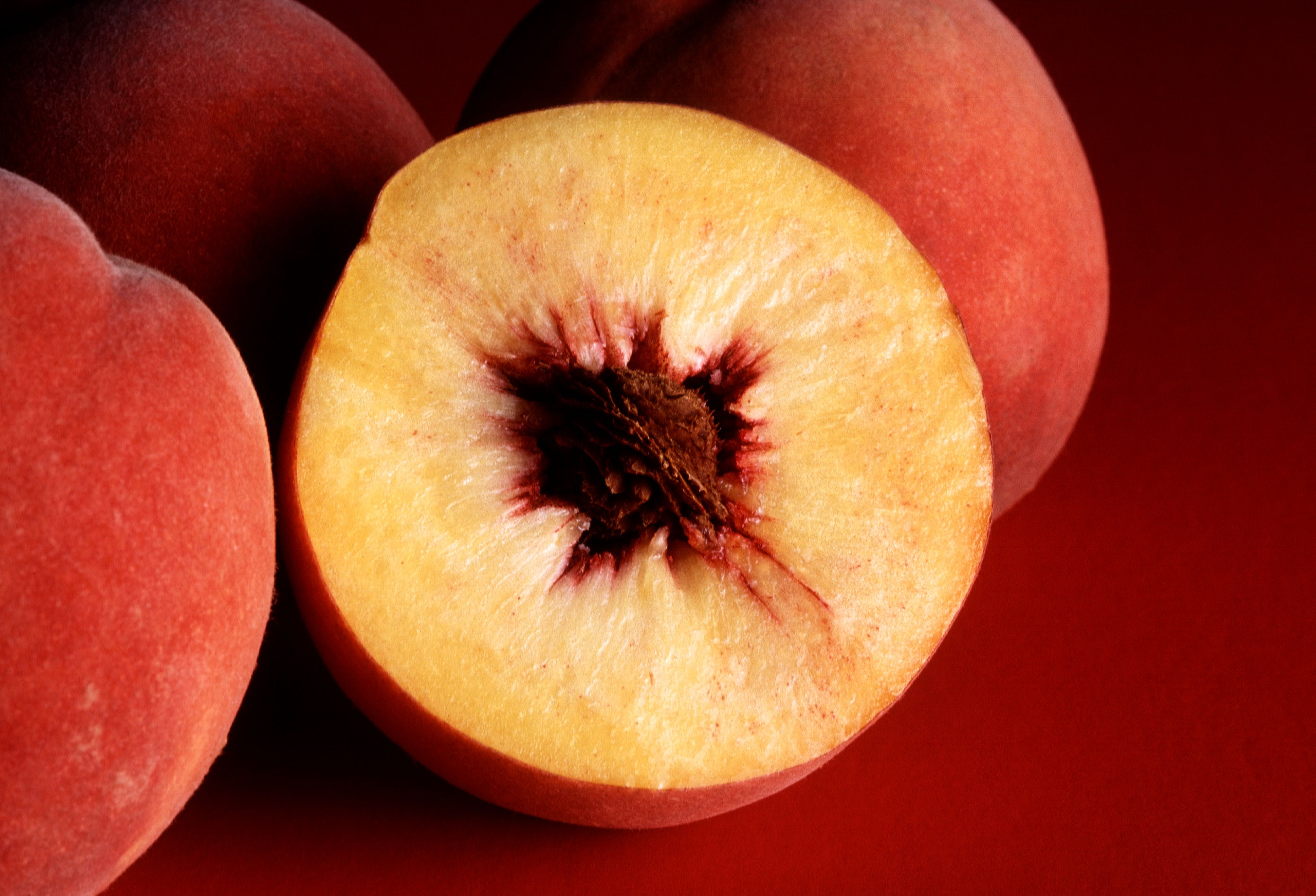 Autumn Red peach.